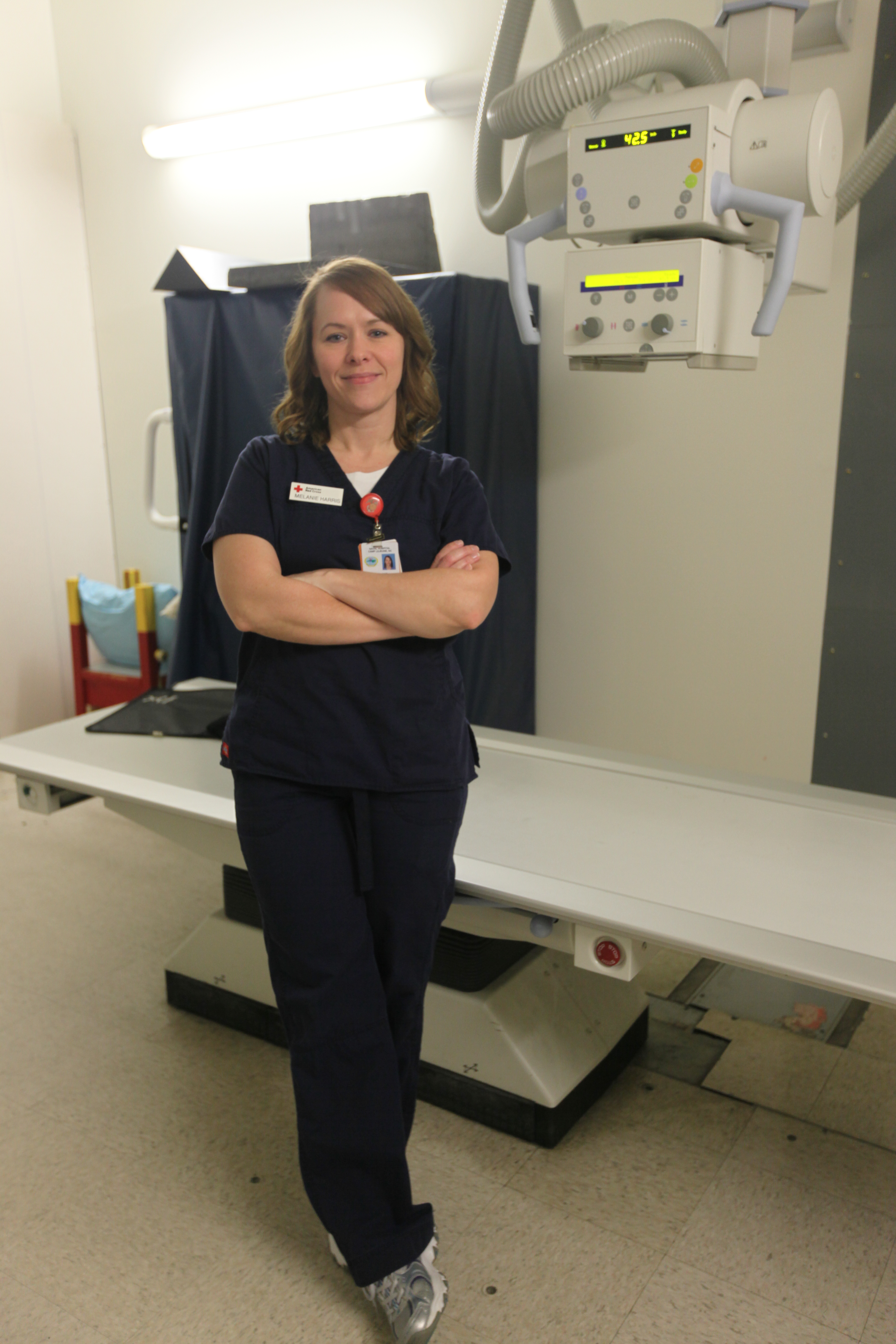 Melanie Harris, a radiological technologist, volunteers with the American Red Cross at Naval Hospital Camp Lejeune, Marine Corps Base Camp Lejeune, where she can put her job skills to work, March 1. March is American Red Cross month and people everywhere are encouraged to donate or volunteer at their local American Red Cross chapters throughout the United States.